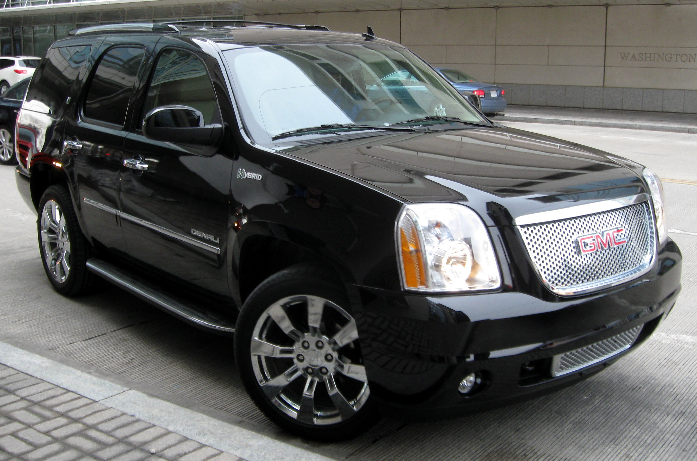 2011 GMC Yukon Denali Hybrid photographed at the 2011 Washington (D.C.) Auto Show.